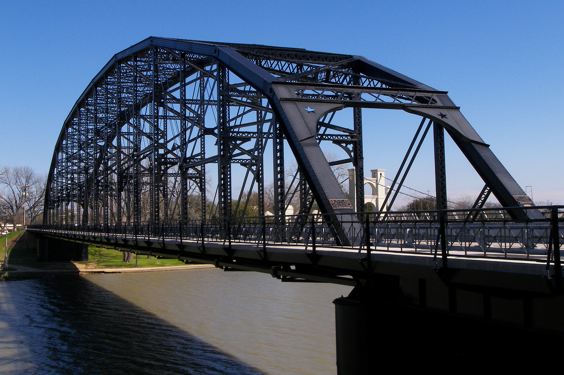 The Washington Avenue Bridge located in Waco, Texas, United States. The bridge was listed on the National Register of Historic Places on February 20, 1998.